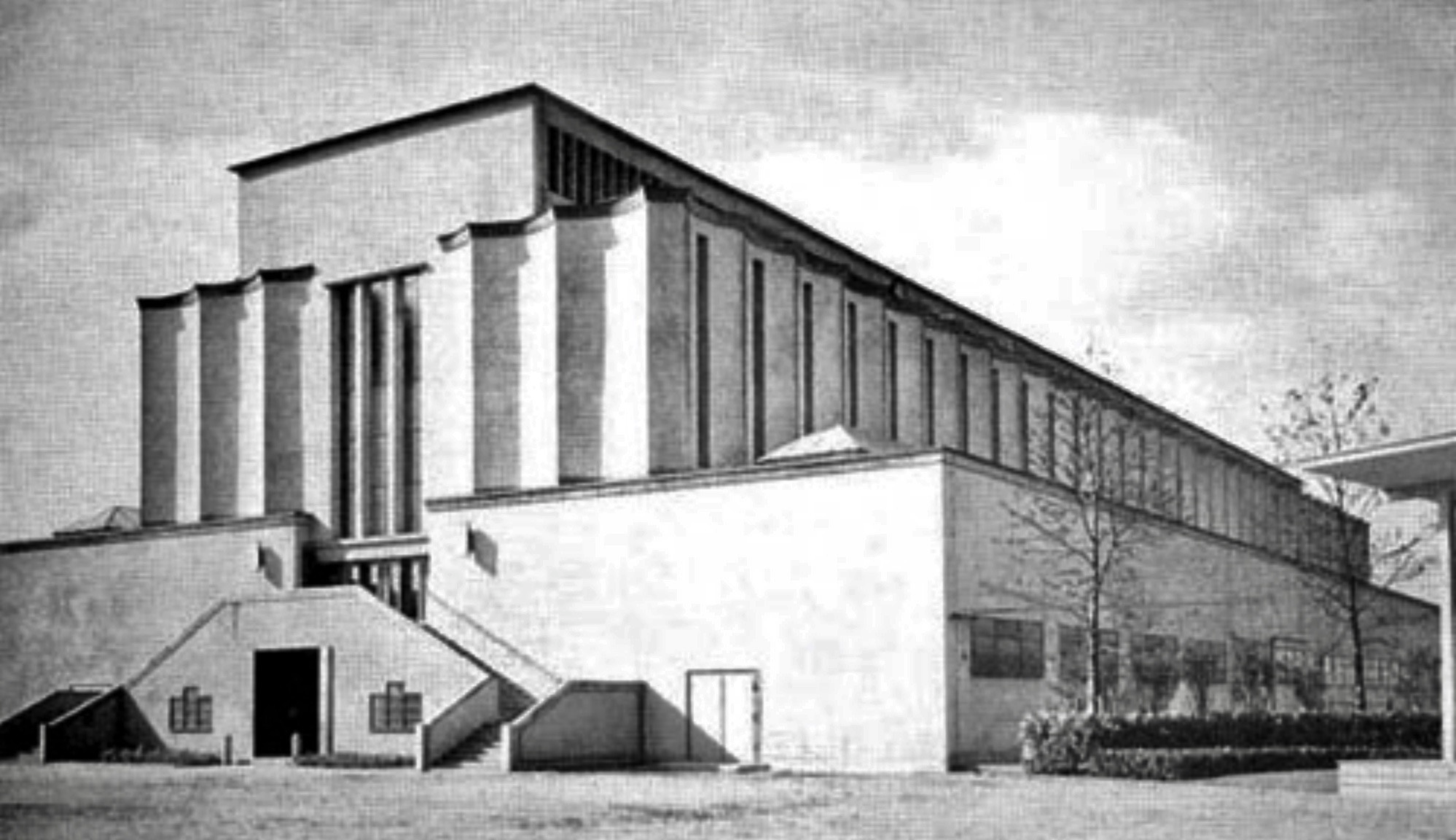 Exhibition and Fastival Hall of the City of Essen, Germany, planned by architect Josef Rings (1878–1957), previous building of today's Grugahalle